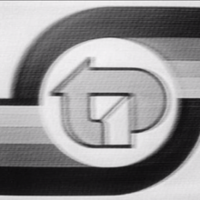 TP1 logo in 1985-1987